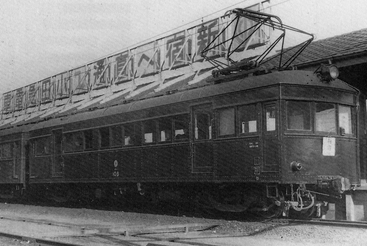 Odawara Express Railway No.108,EMU Type 101